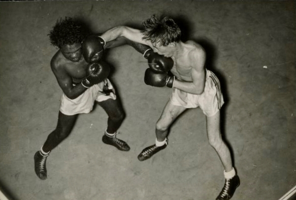 Elley Bennett versus Jimmy Carruthers, at Sydney Stadium, 14th May 1951 : Carruthers won on points [picture].